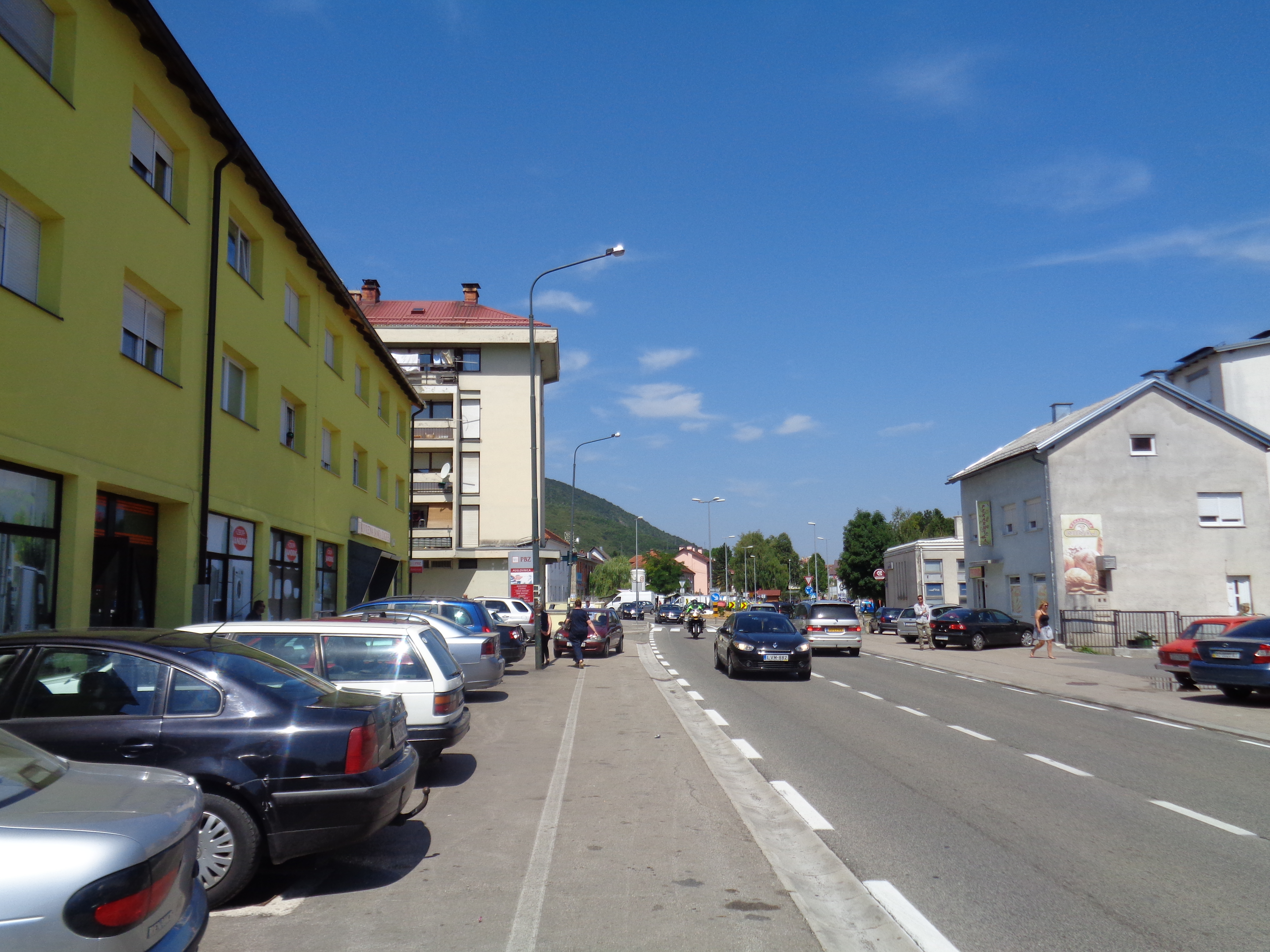 Korenica, seat of the Municipality of Plitvička Jezera, Lika-Senj County, Croatia - street in village centre